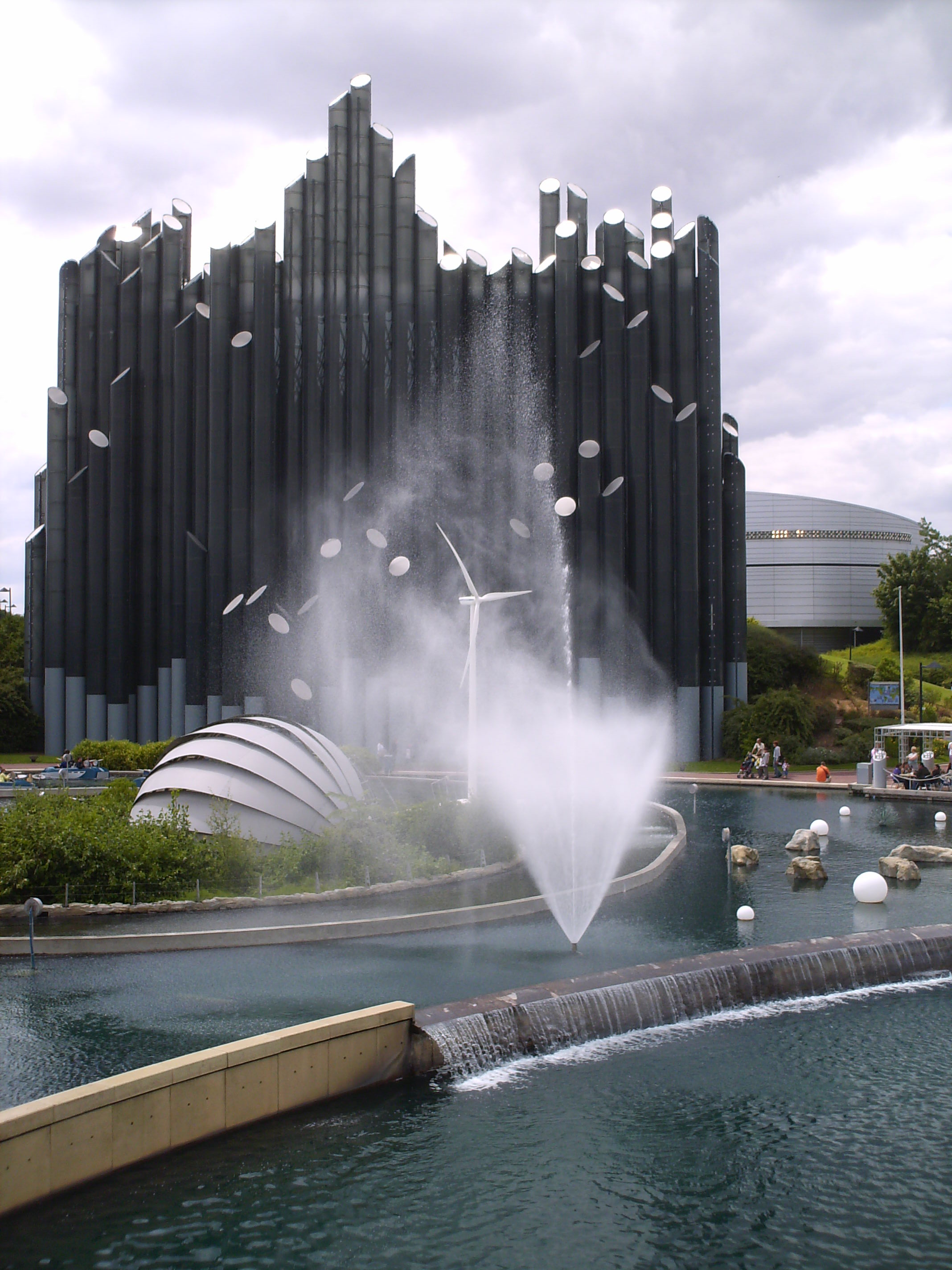 Fountain and facade of the 'Travellers by Air and Sea' attraction at Futuroscope, Vienne, France.